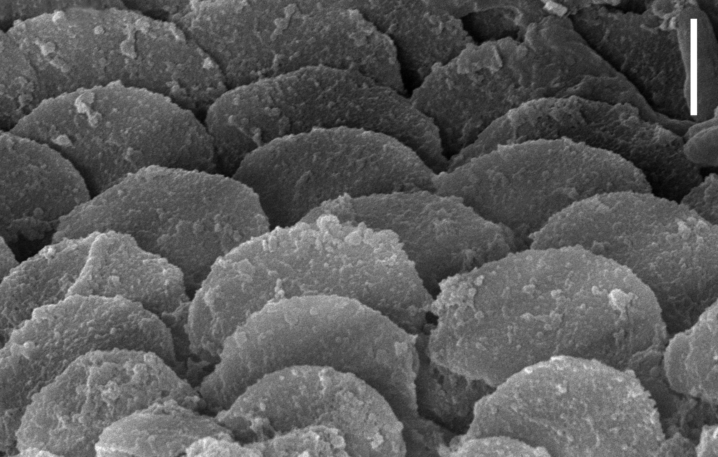 Pseudorhabdosynochus jeanloui Knoff, Cohen, Cárdenas, Cárdenas-Callirgos & Gomes, 2015 (Monogenea, Diplectanidae). Figure 3 of paper d, scanning electron microscope image, detail of rodlet rows of a squamodisc, ventral view. Scale bars: 2 μm.